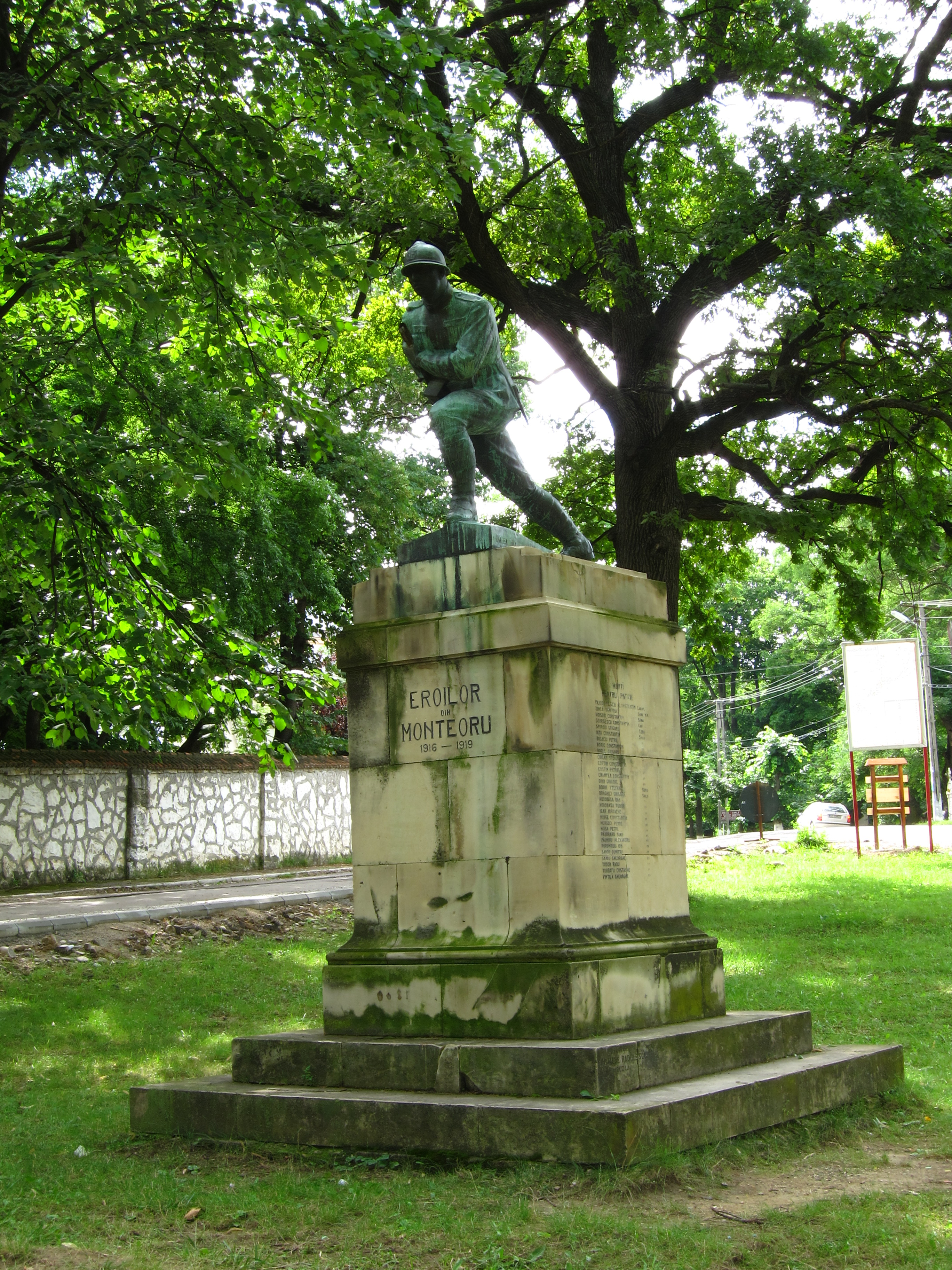 World War I monument in Sărata-Monteoru, Buzău County, RomaniaRomână: Monument al Primului Război Mondial la Sărata-Monteoru, judeţul Buzău, România